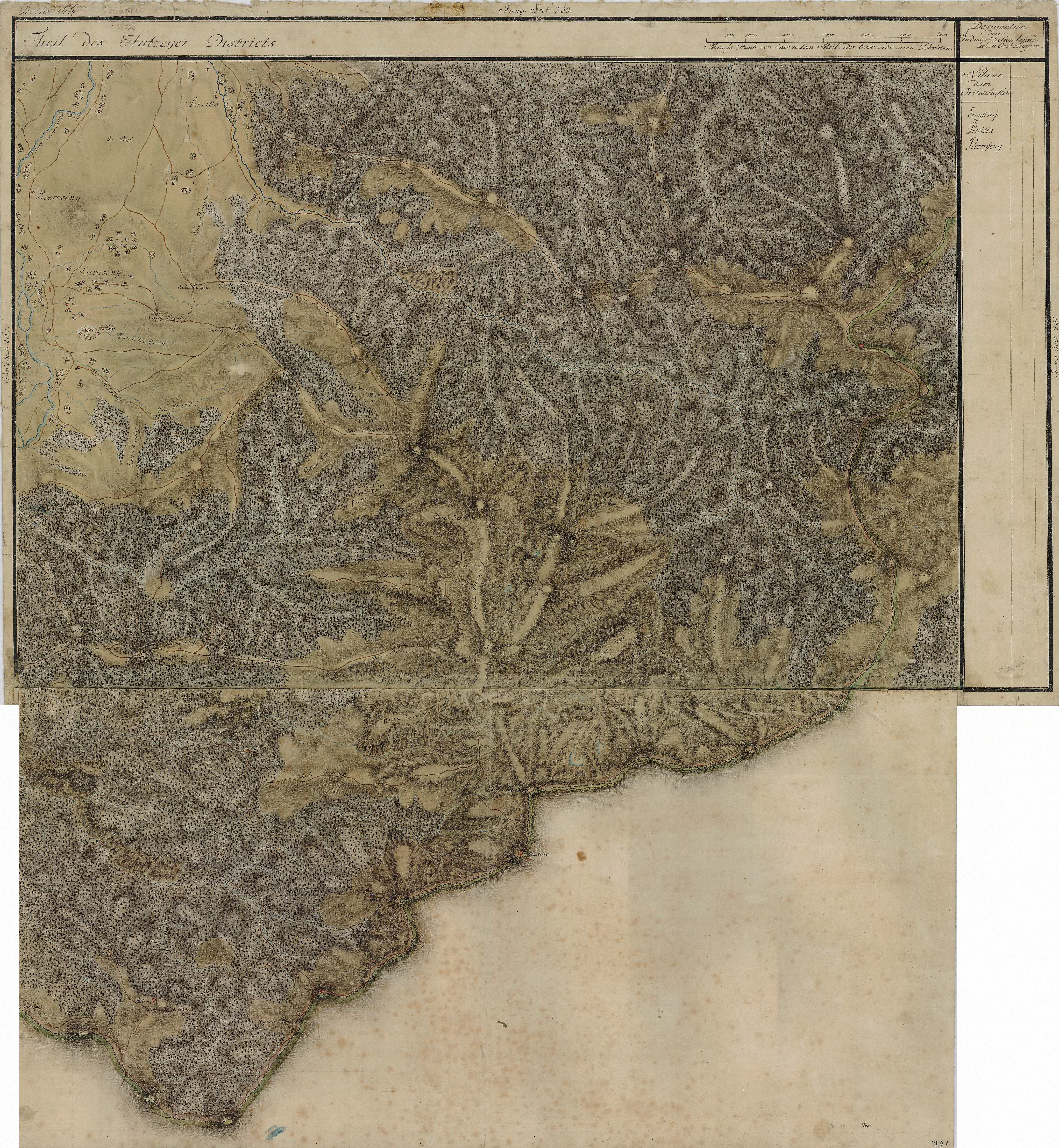 Grand Duchy of Transylvania, 1769-1773. Josephinische Landaufnahme pg.266